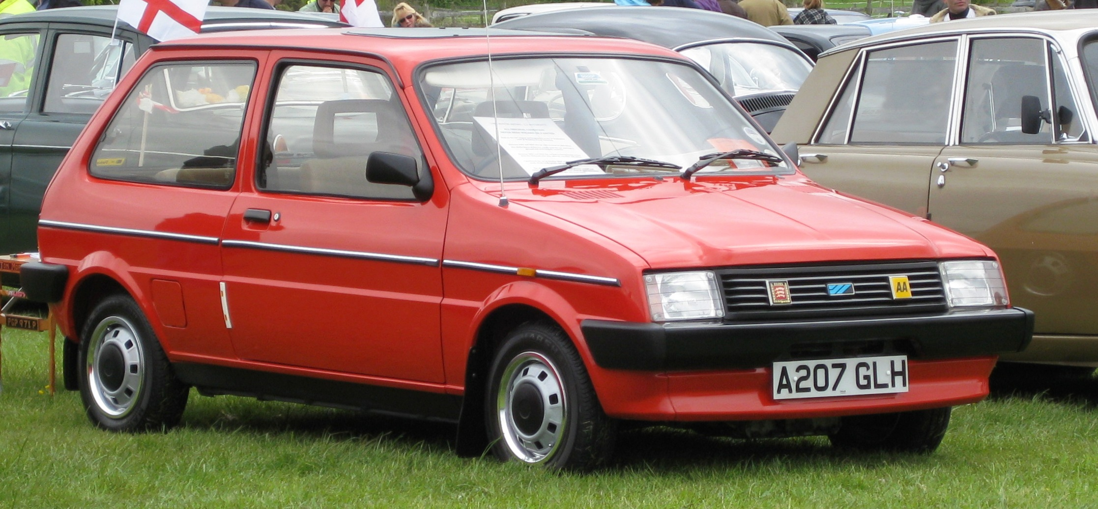 Min Metro at classic car show at Battlesbridge